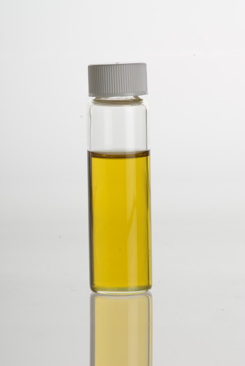 Rose Geranium (Pelargonium roseum) Essential Oil in clear glass vial